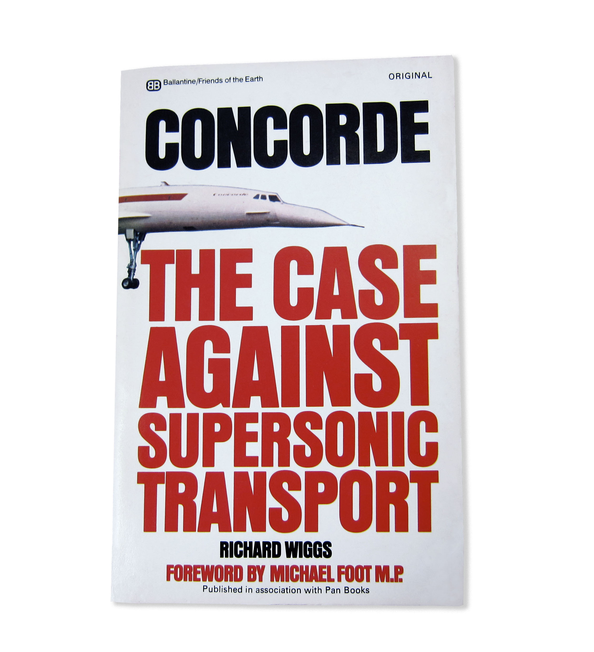 "Concorde: The Case Against Supersonic Transport," written by Richard Wiggs, forword by Michael Foot M.P., details the untold facts regarding supersonic passenger transport and its effects on the environment and the public at large.